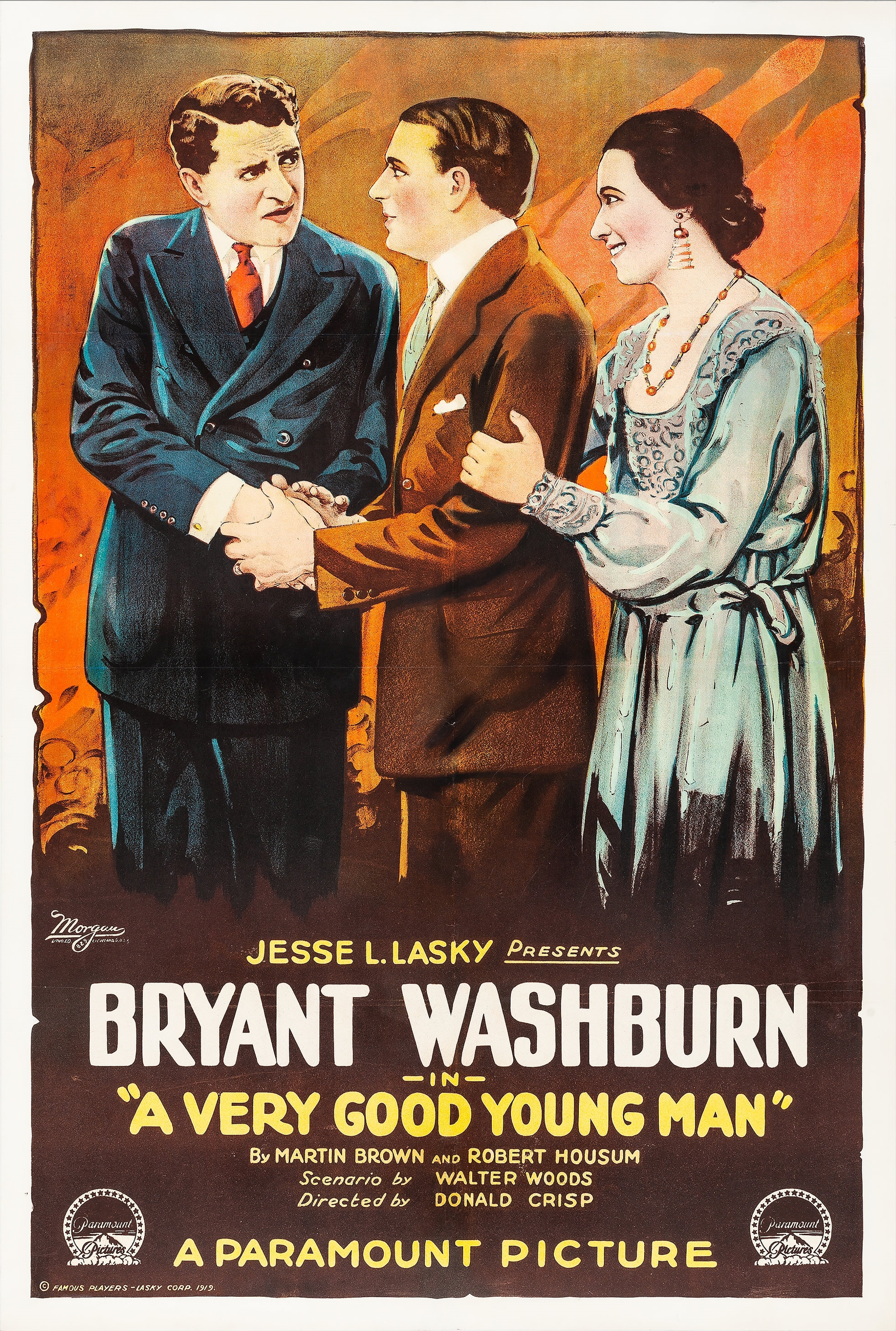 This is a poster for the 1919 American silent comedy film A Very Good Young Man.